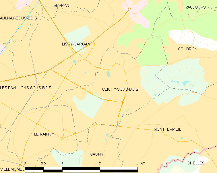 Map of French municipality Clichy-sous-Bois